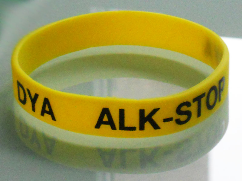 Rubber bracelet against driving after drinking alcohol (DYA).